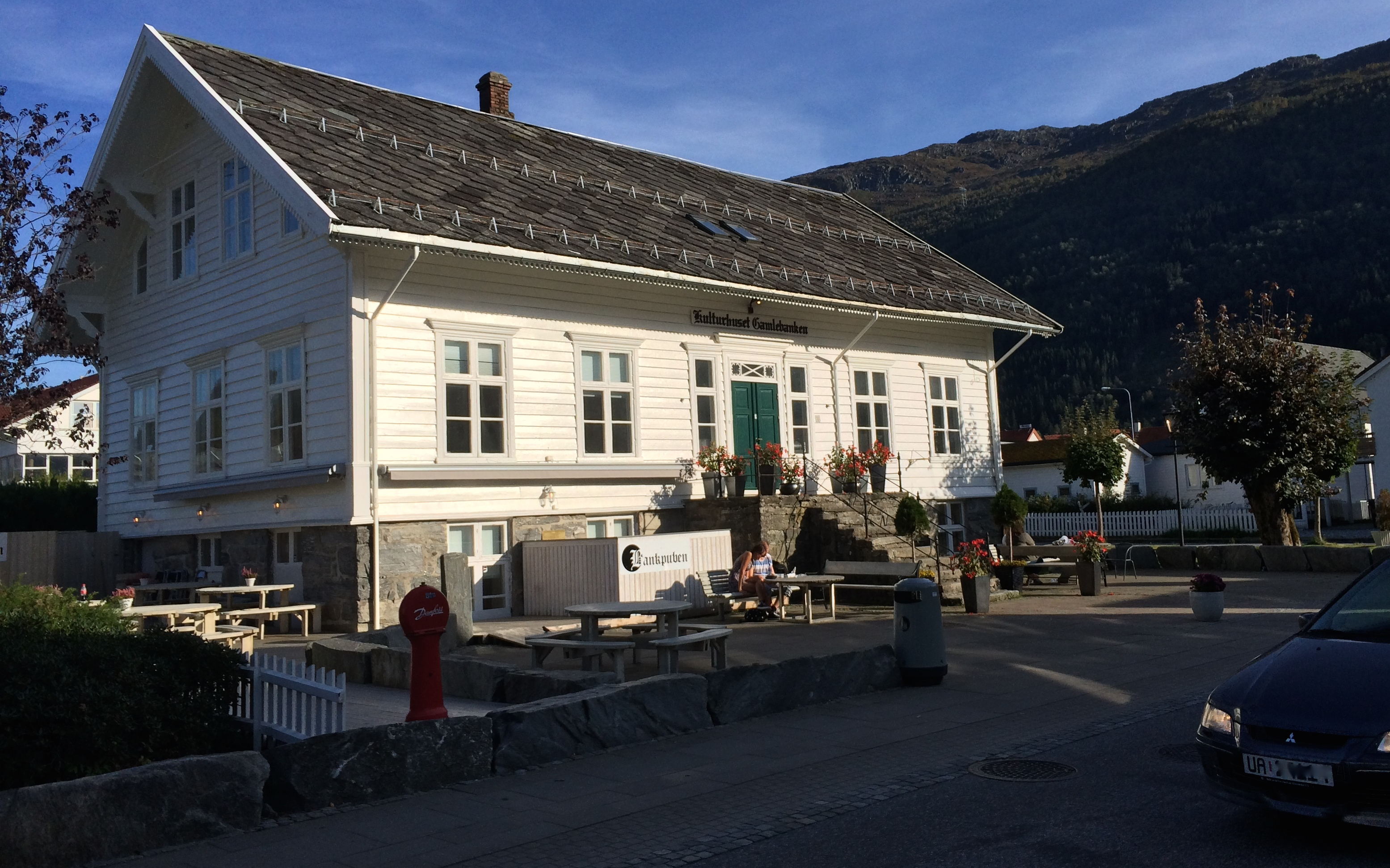 Kulturhuset Gamlebanken, Nordfjordeid, Sogn og Fjordane, Norway, 2014-09-17